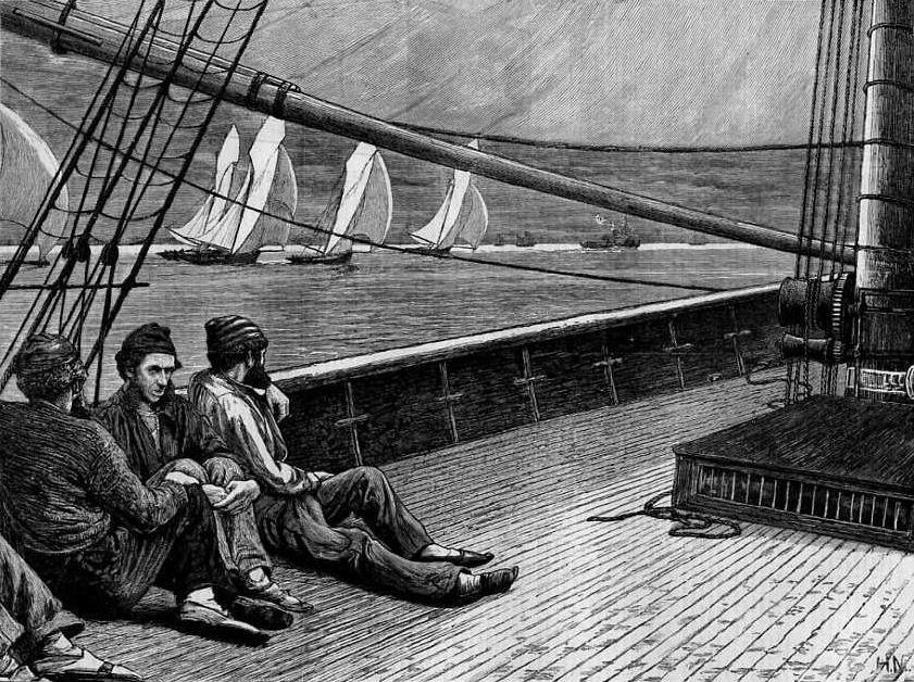 The Yacht Race -- A Sketch from the Deck of a Competing Yacht, a wood engraving published in Harper's Weekly, August 1872.